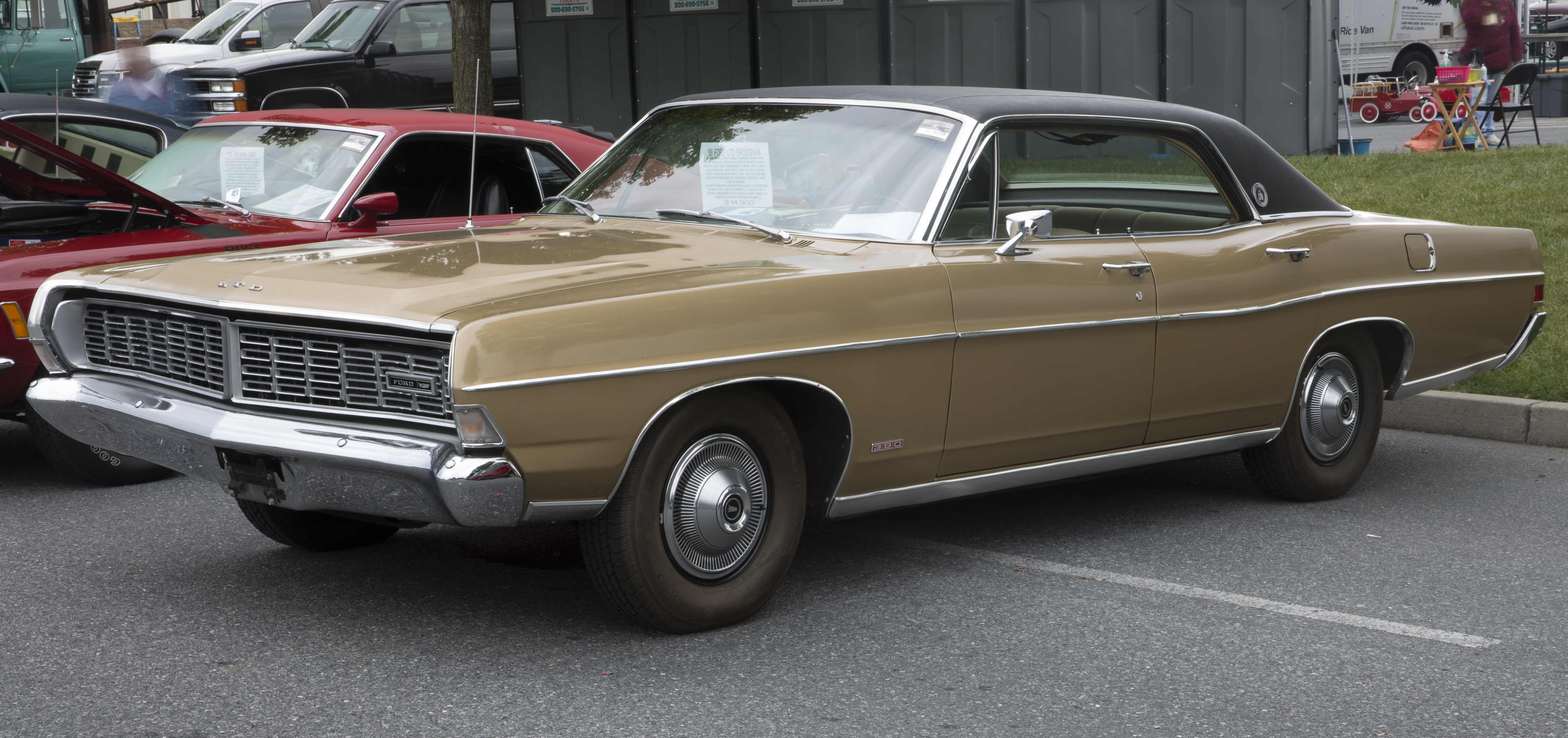 A 1968 Ford LTD Brougham 4-door Hardtop Sedan offered for sale at Hershey 2019. Assembled in Mahwah, NJ, fitted with the 2-barrel 390 V8 (9.5 : 1 CR) with 265hp, sold new on June 20th, 1968 to a Charles Dutterer of Westminster, MD. Salesman Graf of Crouse Ford Sales Inc. knocked of nearly $700, bringing the price down to 3600 with taxes, tags, and all. The all-new '69s were just around the corner, after all...